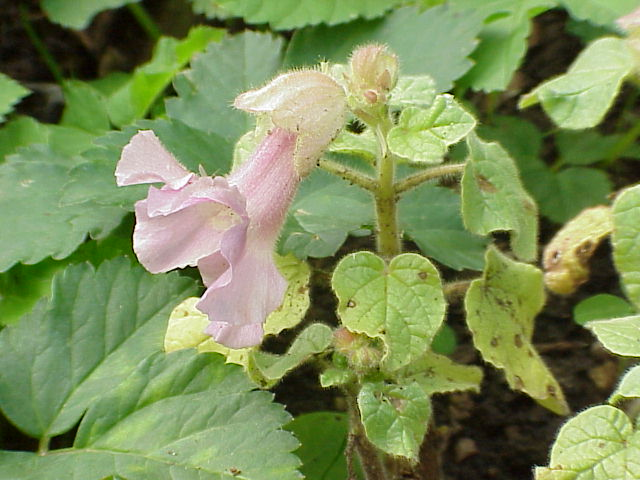 Species: Proboscidea louisianica Family: Martyniaceae Image No. 4